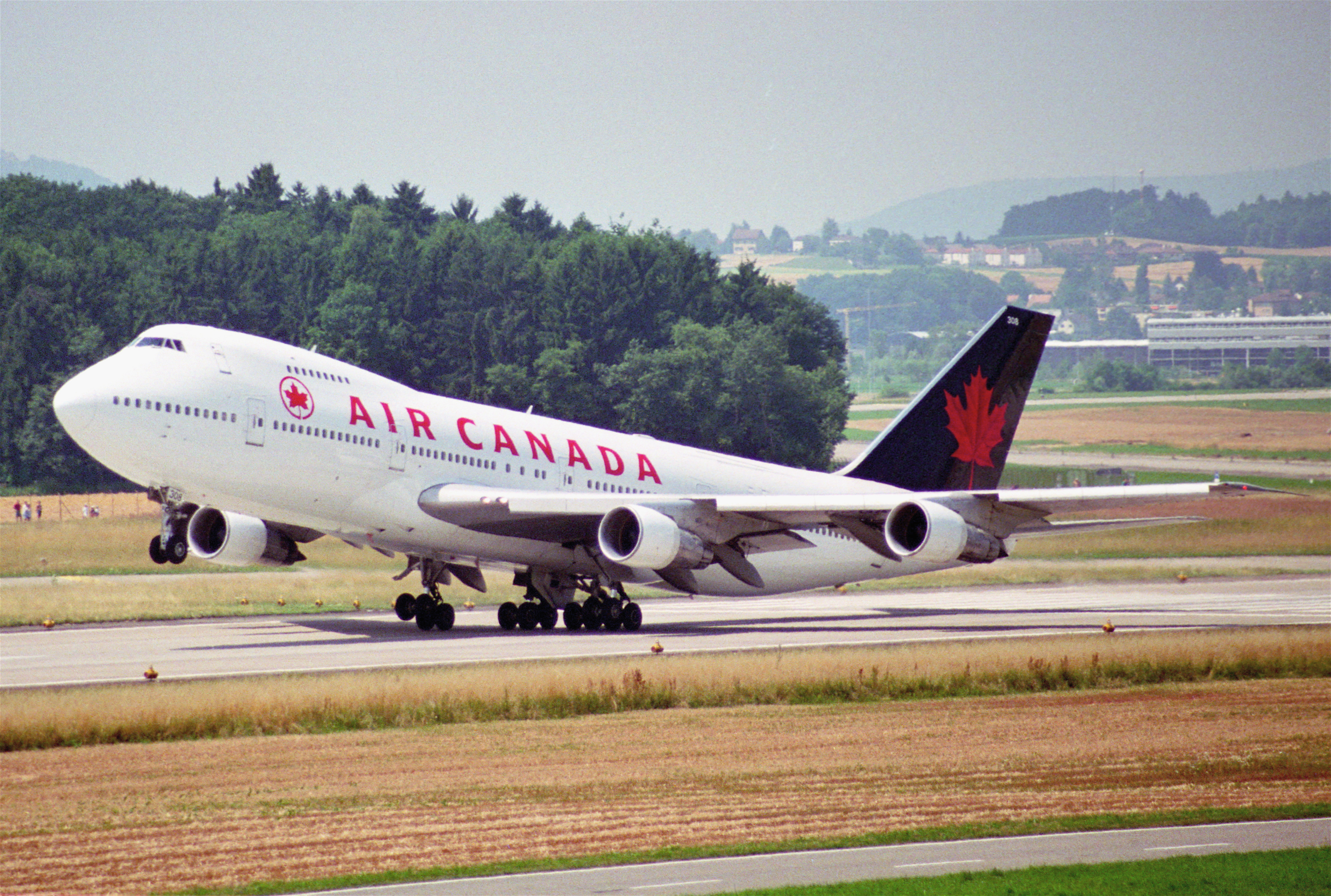 This Boeing 747-238B (M) took its first flight on October 4, 1977... 27/10/1977 Qantas VH-ECA 11/08/1988 Air Canada C-GAGCs tored at Mojave 29/01/99